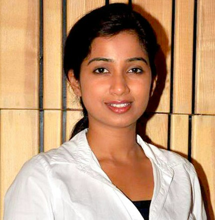 Shreya Ghoshal at recording for Bade Acchey Lagtey Hain